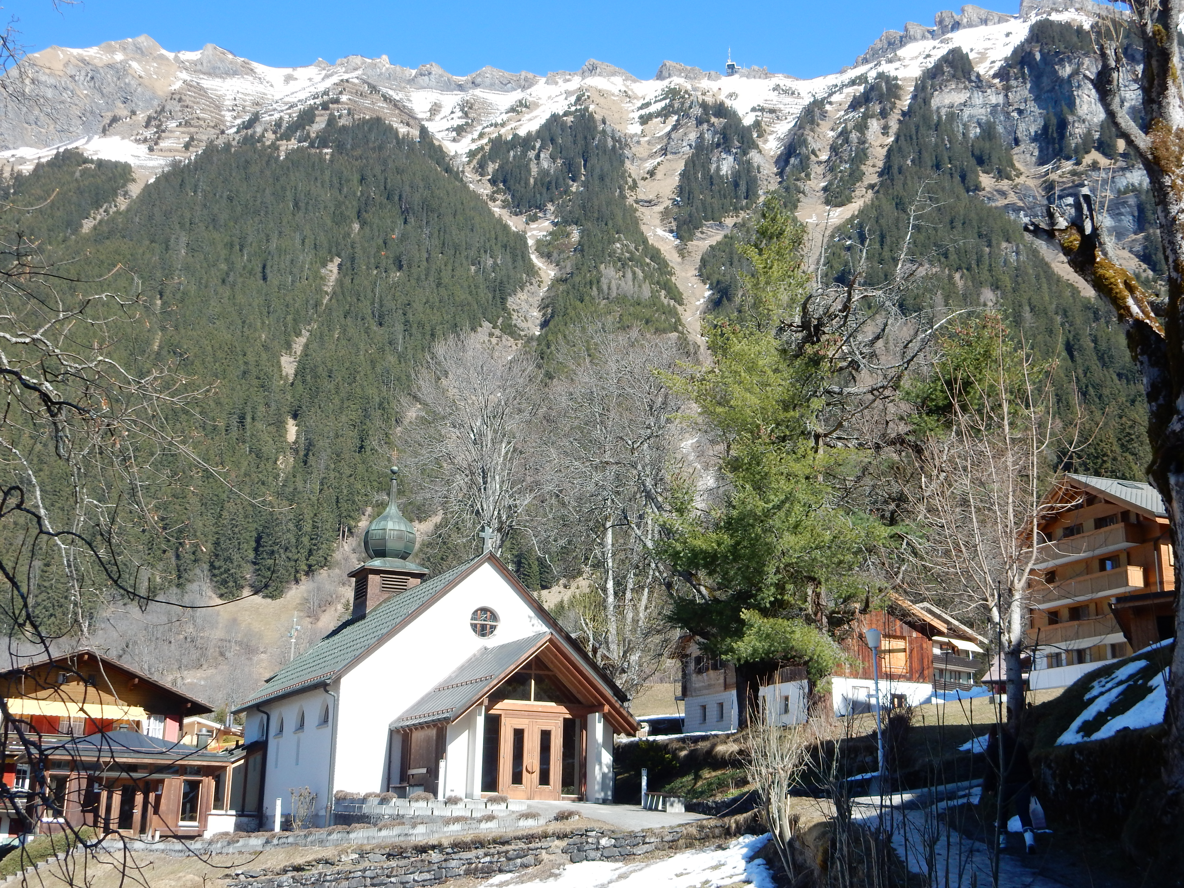 Wengen, Catholic church